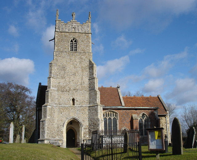 Church of St Mary in Newbourne, Suffolk, England. A Grade I listed medieval church.